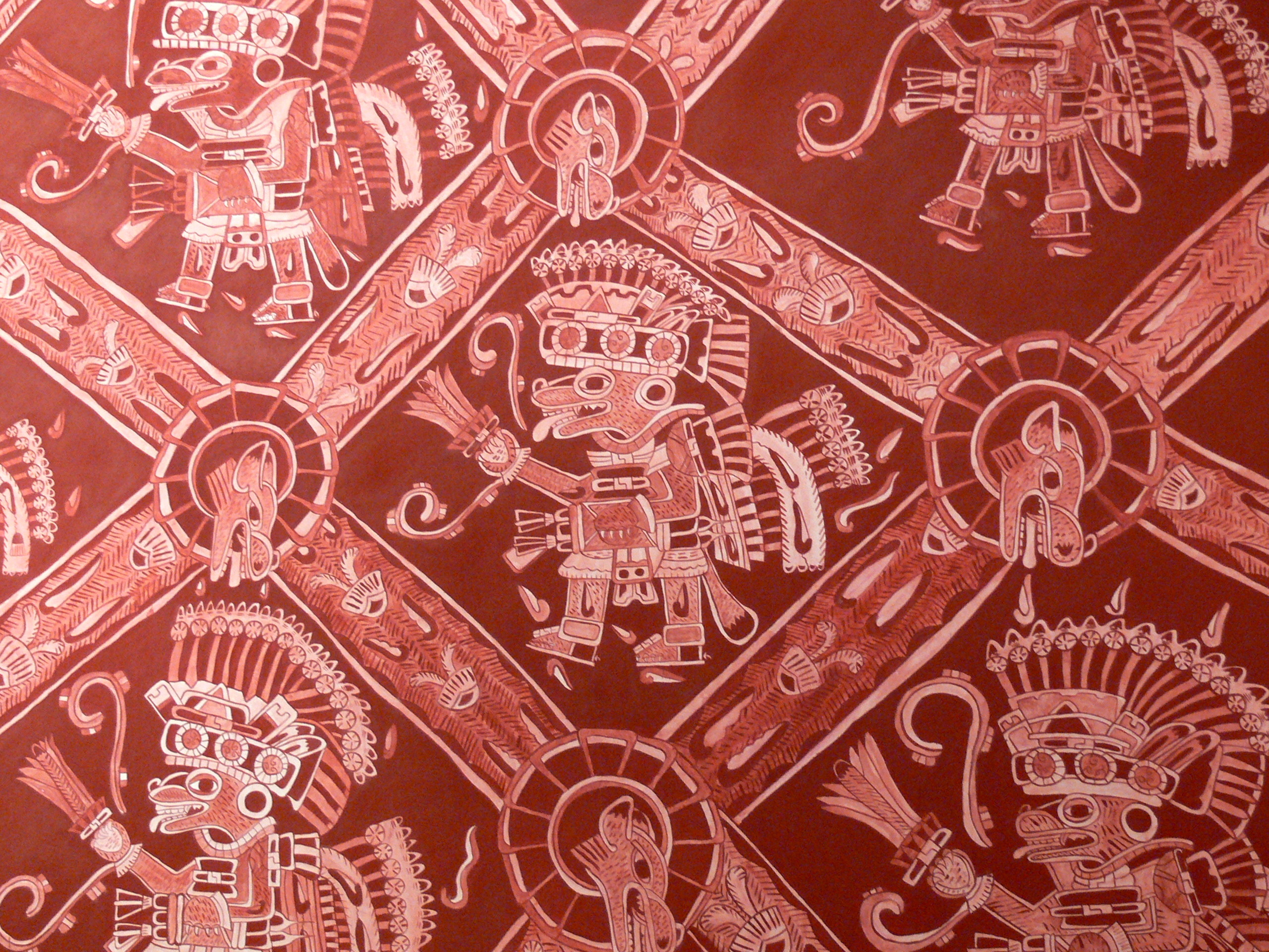 National Museum of Anthropology - Teotihuacán. Reconstruction of murals in a patio of the Palacio de Atetelco in Teotihuacán showing coyote warriors.